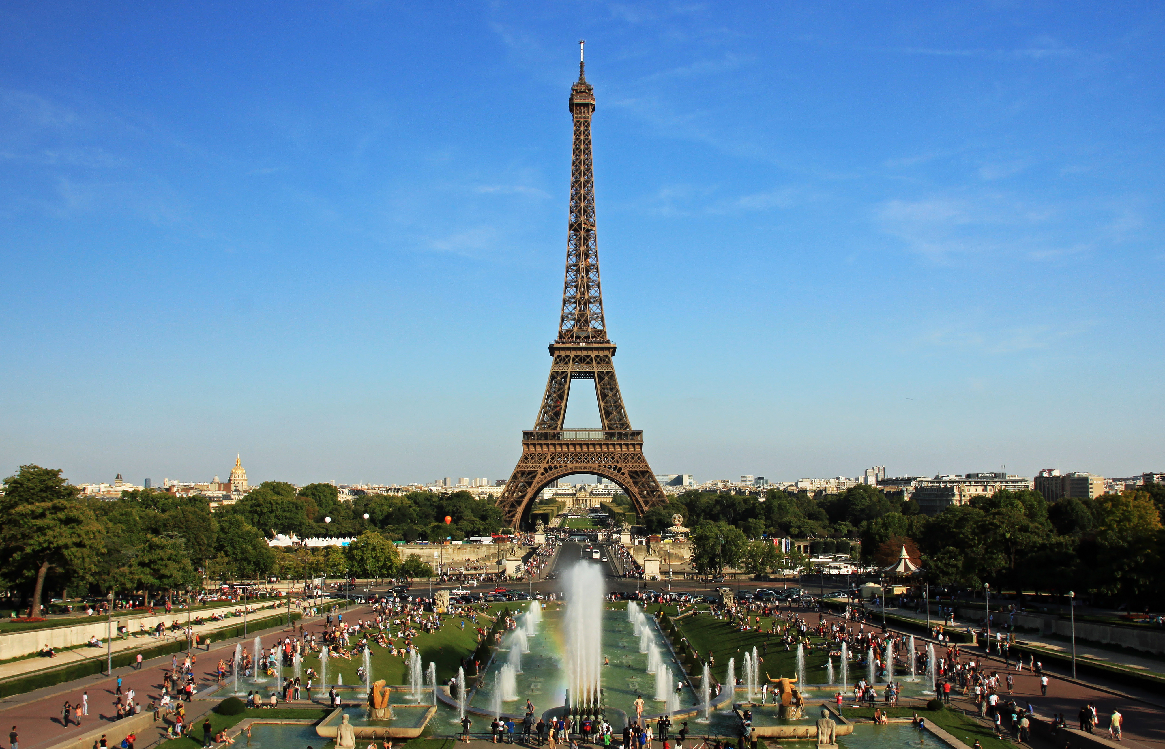 Eiffel Tower and Jardins du Trocadéro from the Palais de Chaillot, Paris.